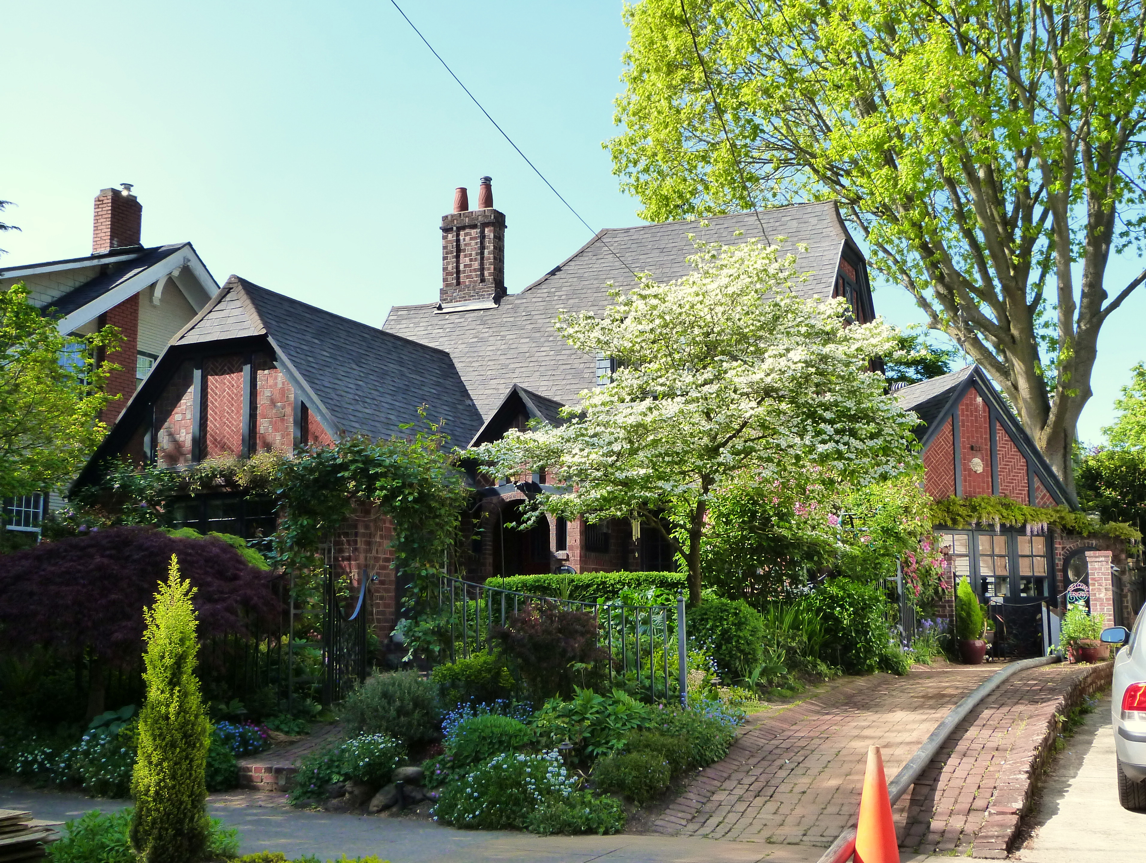 The historic Brick House Beautiful (built 1923), located at 4005 Northeast Davis Street in Portland, Oregon, United States, is listed on the US National Register of Historic Places.